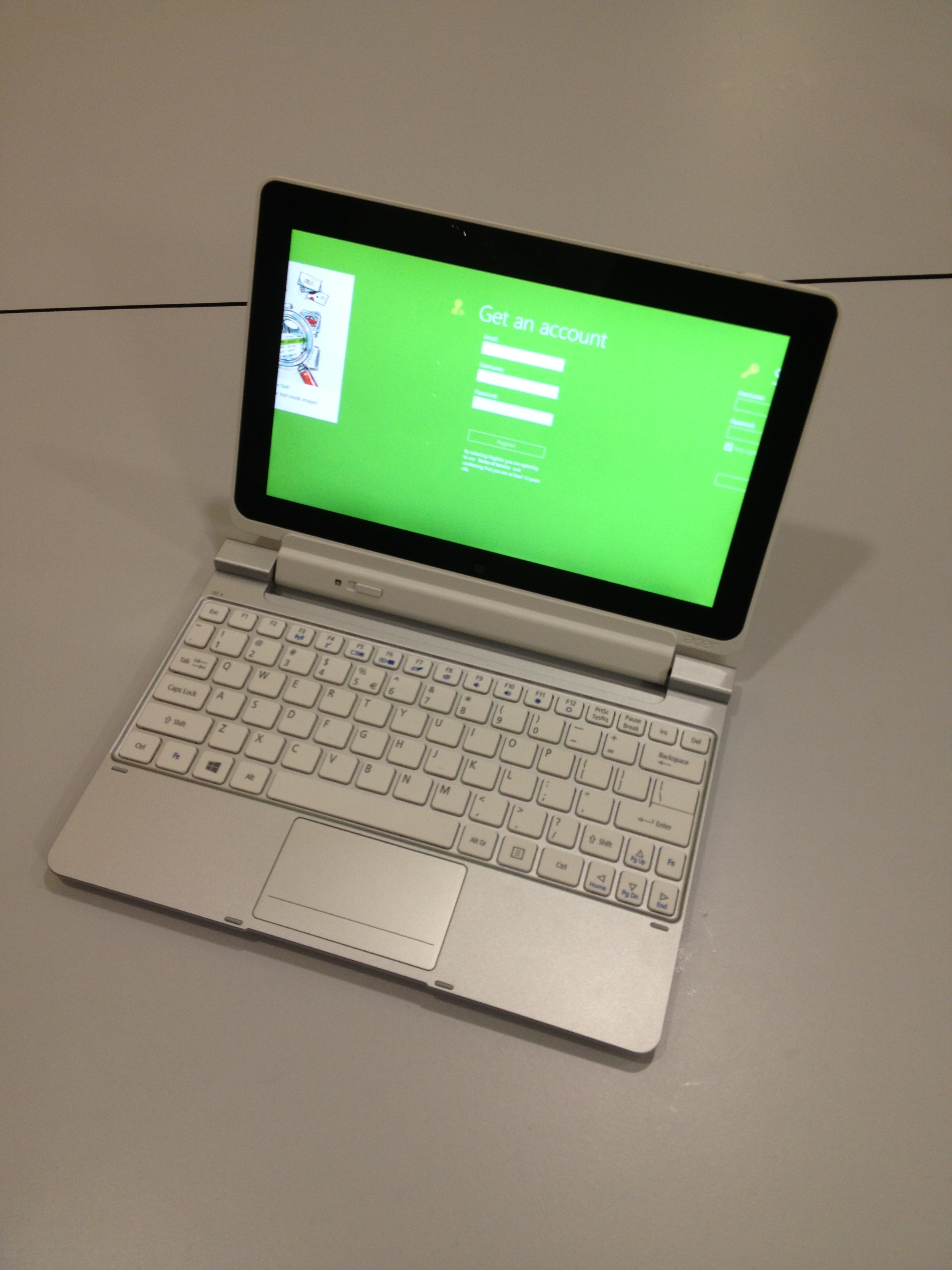 Acer ICONIA W5.